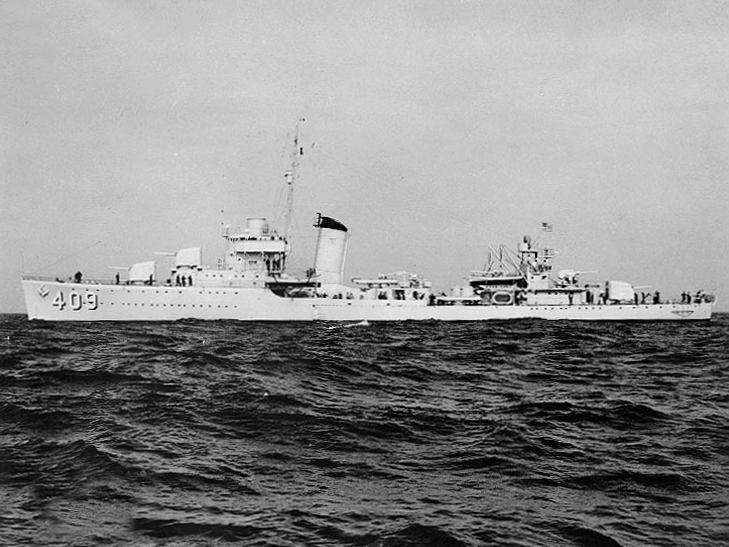 The U.S. Navy destroyer USS Sims (DD-409) off the Kennebec River, Maine (USA), at the time of her builder's trials, 6 July 1939.